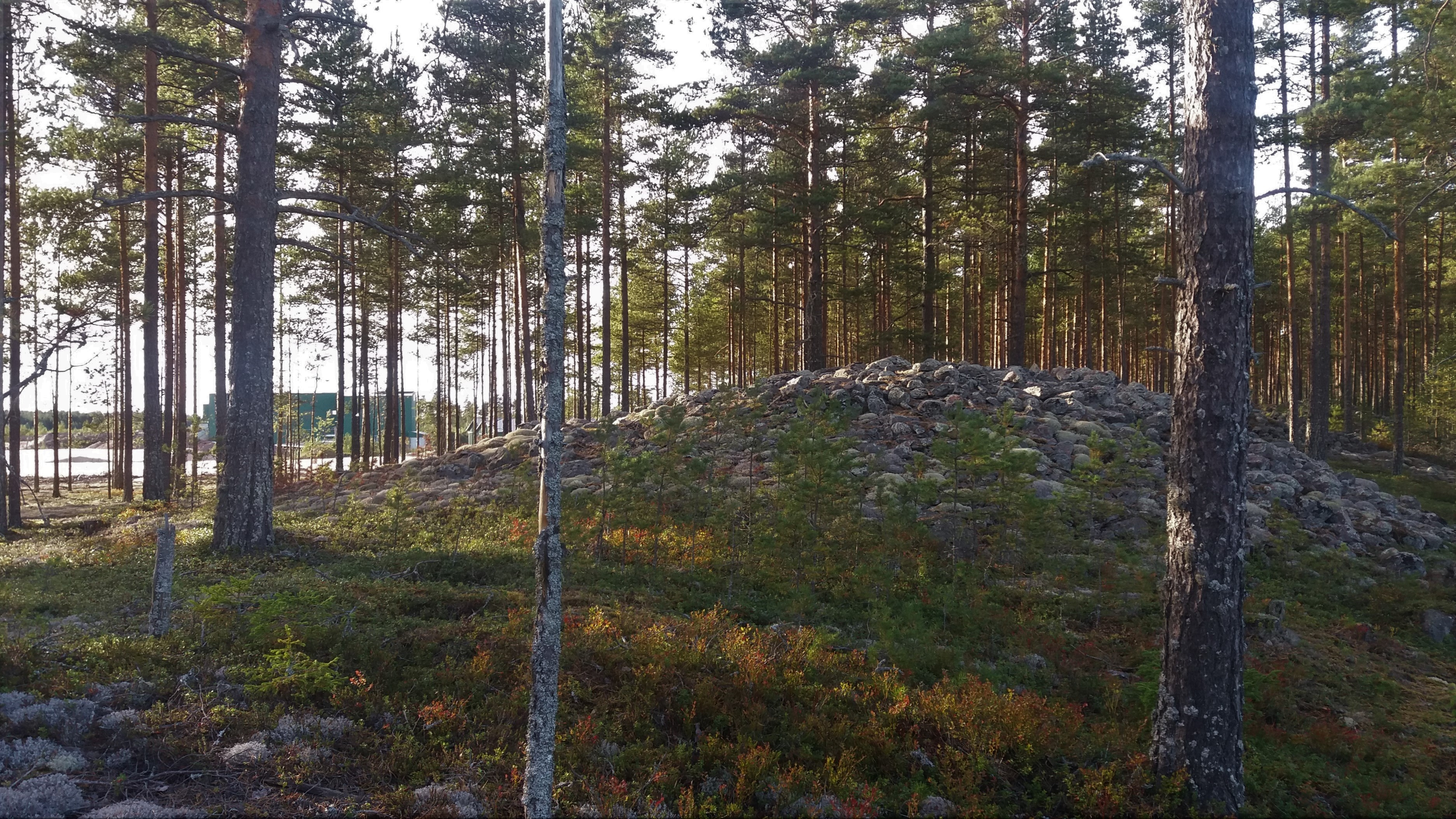 Matinharju Bronze Age chambered cairn in Harjavalta, Finland.